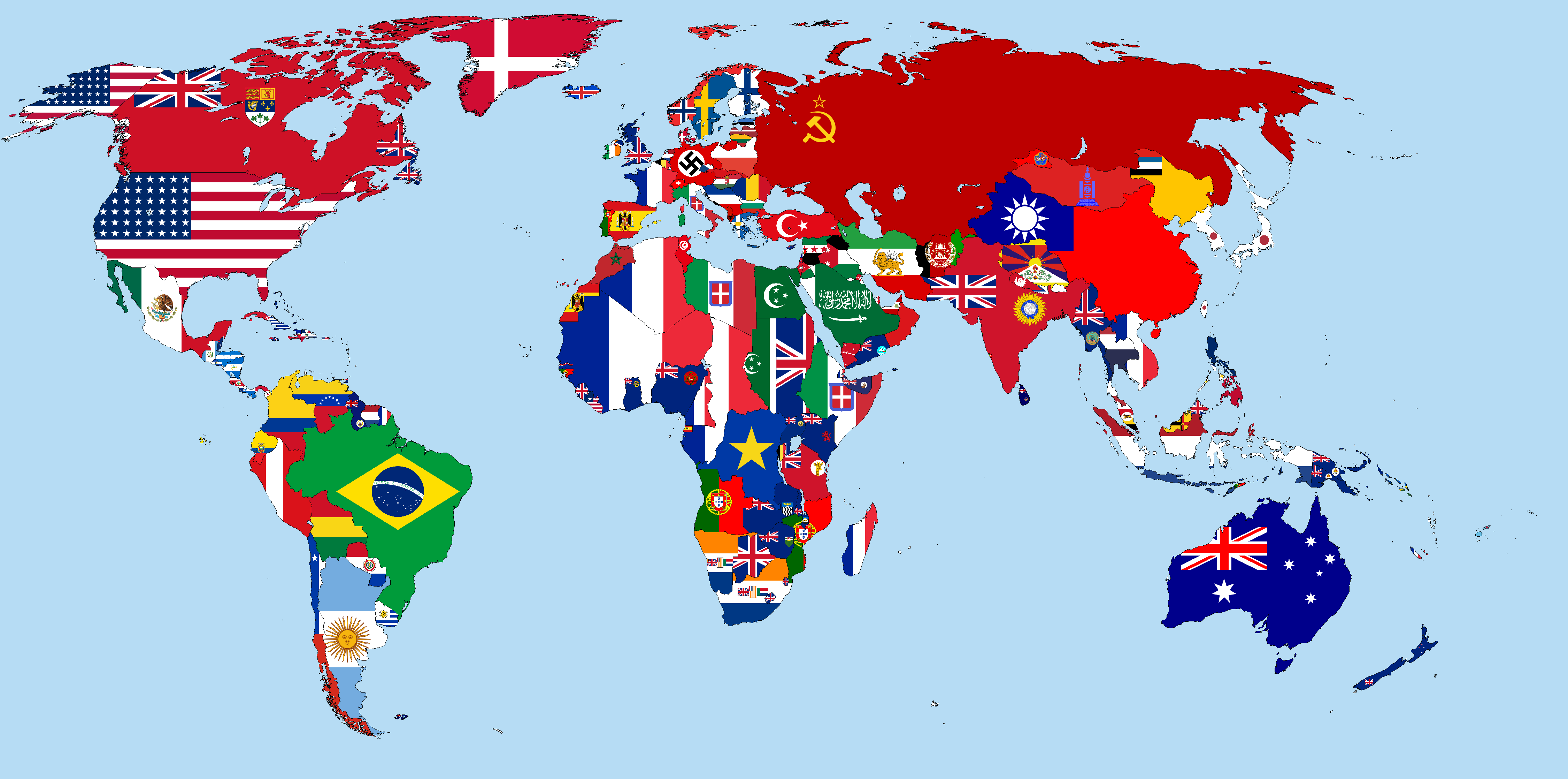 The world in 1938 Flag maps of the world for historical use 1789 · 1900 · 1908 · 1914 · 1930 · 1935 · 1938 · 1942 · 1965 · 1970 · 1972 · 1974 · 1989 · 1990 · 1991 · 1992 · 1993 · 2010 · 2012 · 2013 · 2015 · 2016 · 2017 · 2018 (this template: • view • discuss )